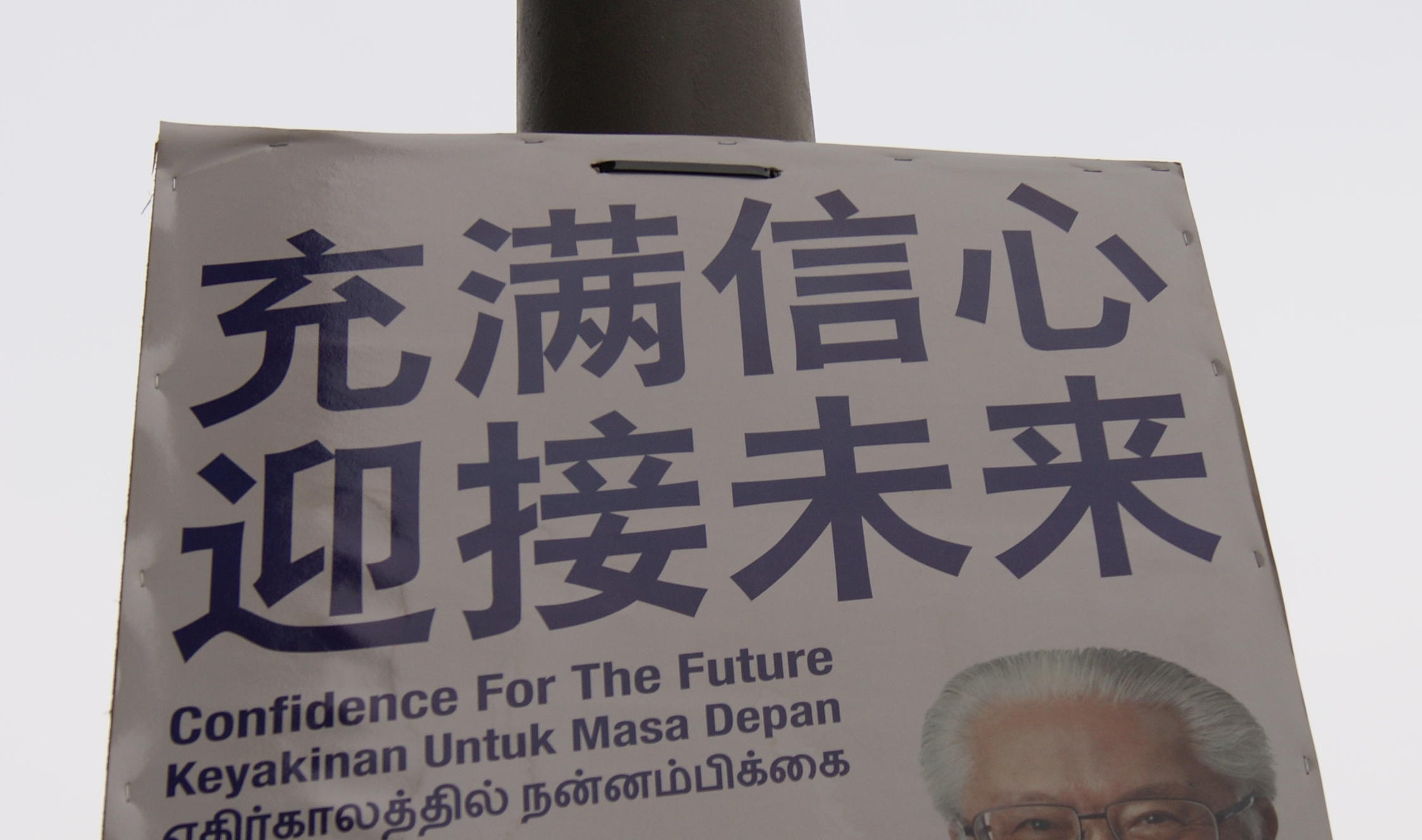 Part of a Mandarin poster of Tony Tan Keng Yam, who was elected as President during the Singaporean presidential election, 2011, along Hill Street.